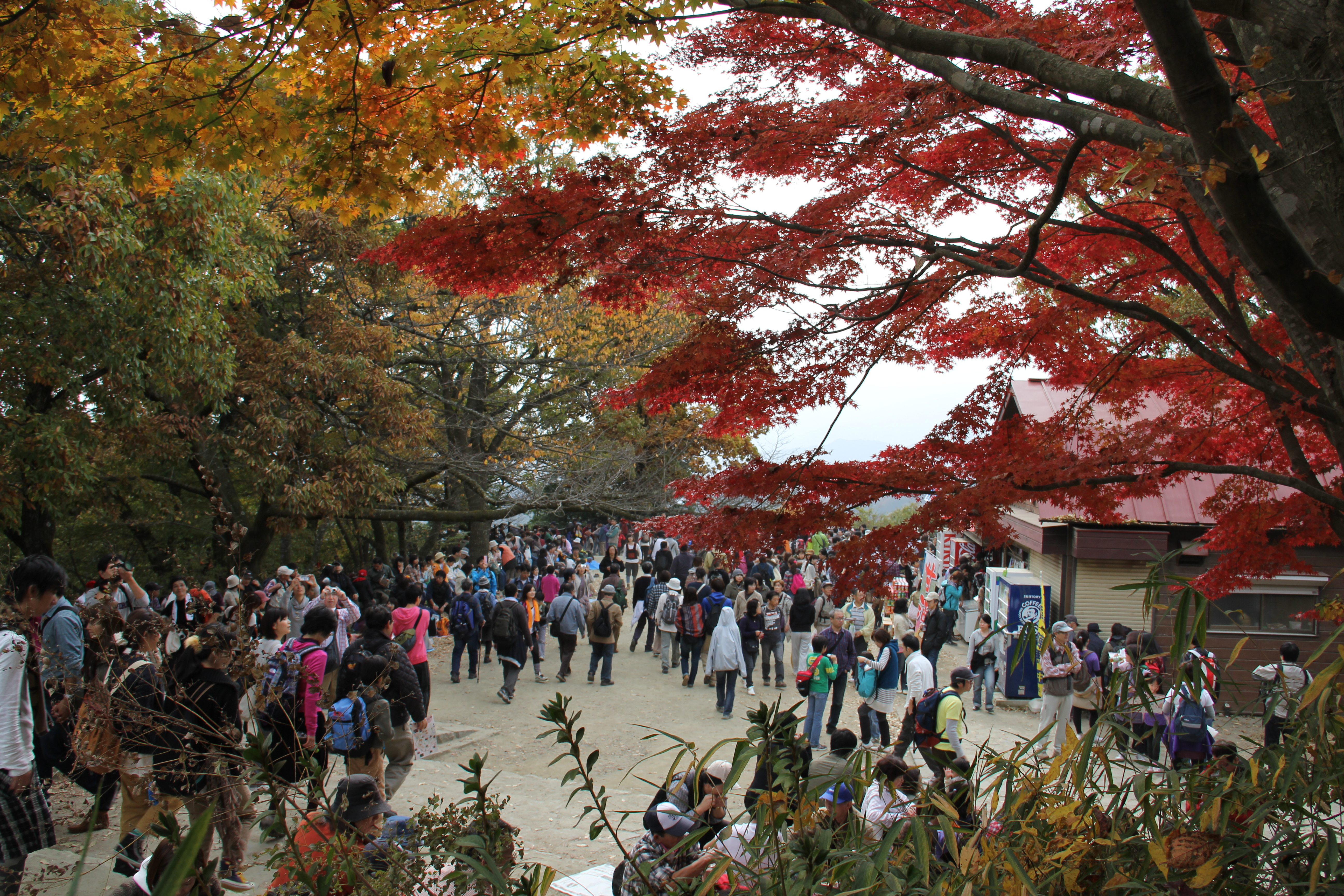 Takao-san-Top in Tokyo